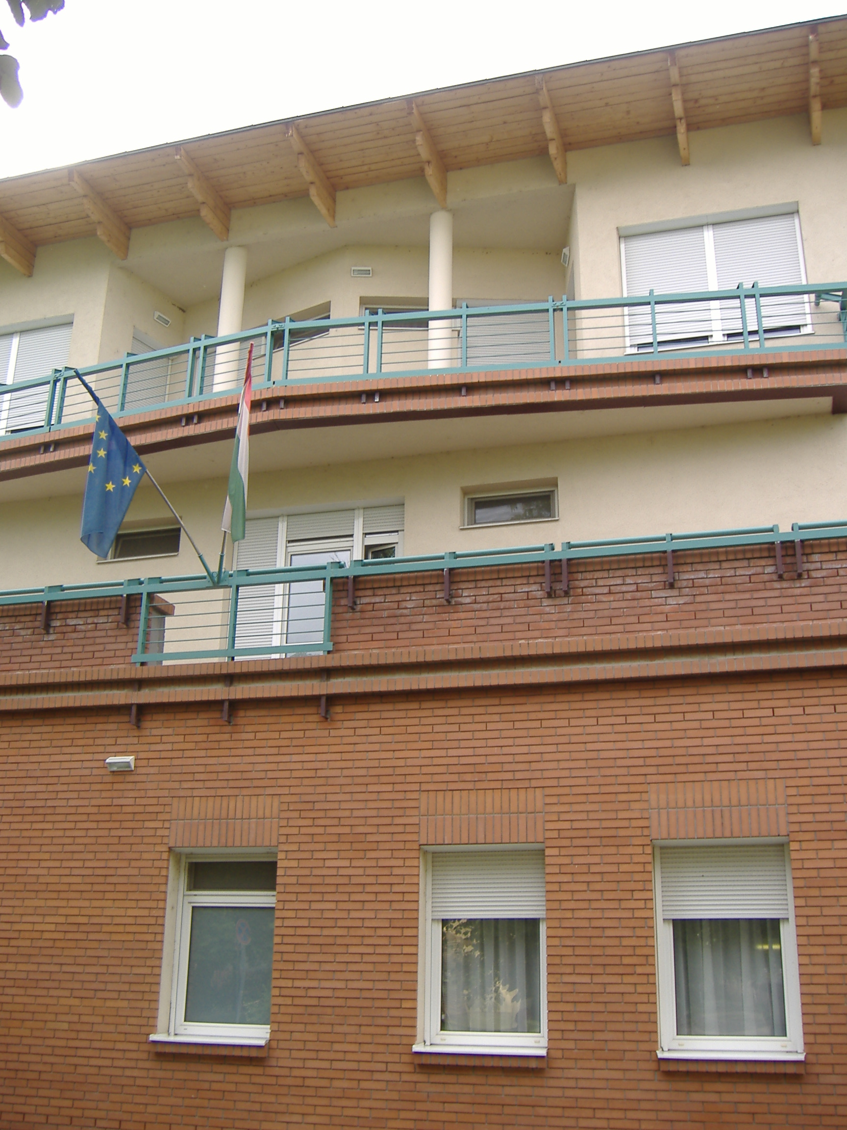 The facade of the new building of the Sámuel Diósszilágy Hospital in Makó, Hungary.